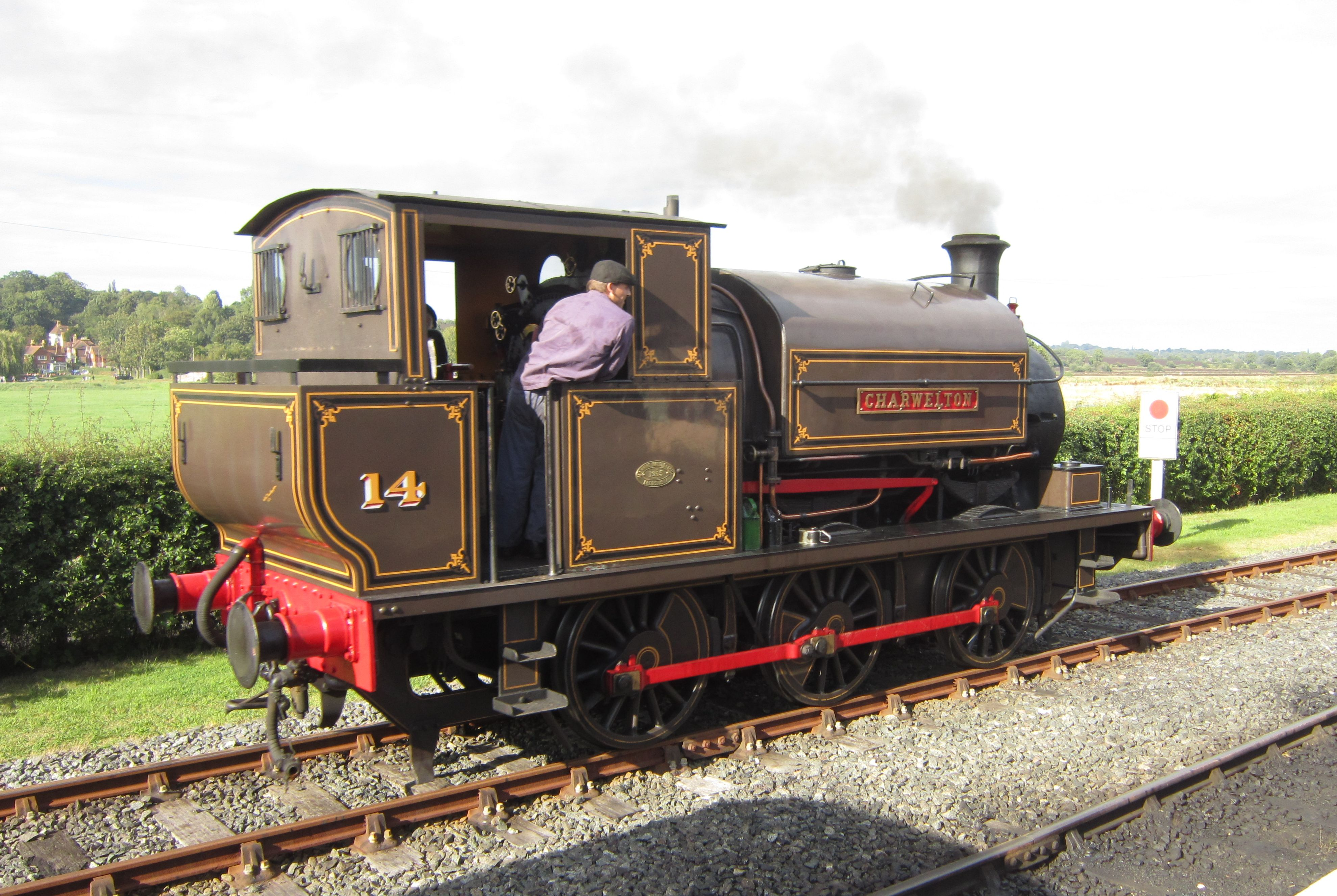 Manning, Wardle 0-6-0ST №14 Charwelton on the Kent and East Sussex Railway.